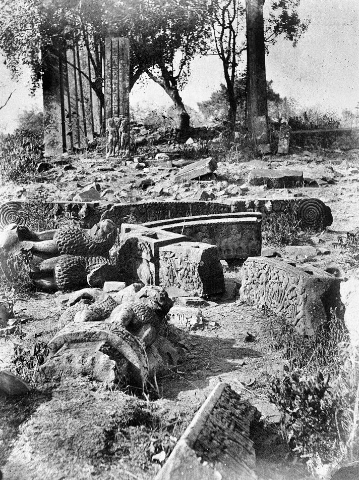 Ruins at Stupa 1 Sanchi, Joseph Beglar 1875